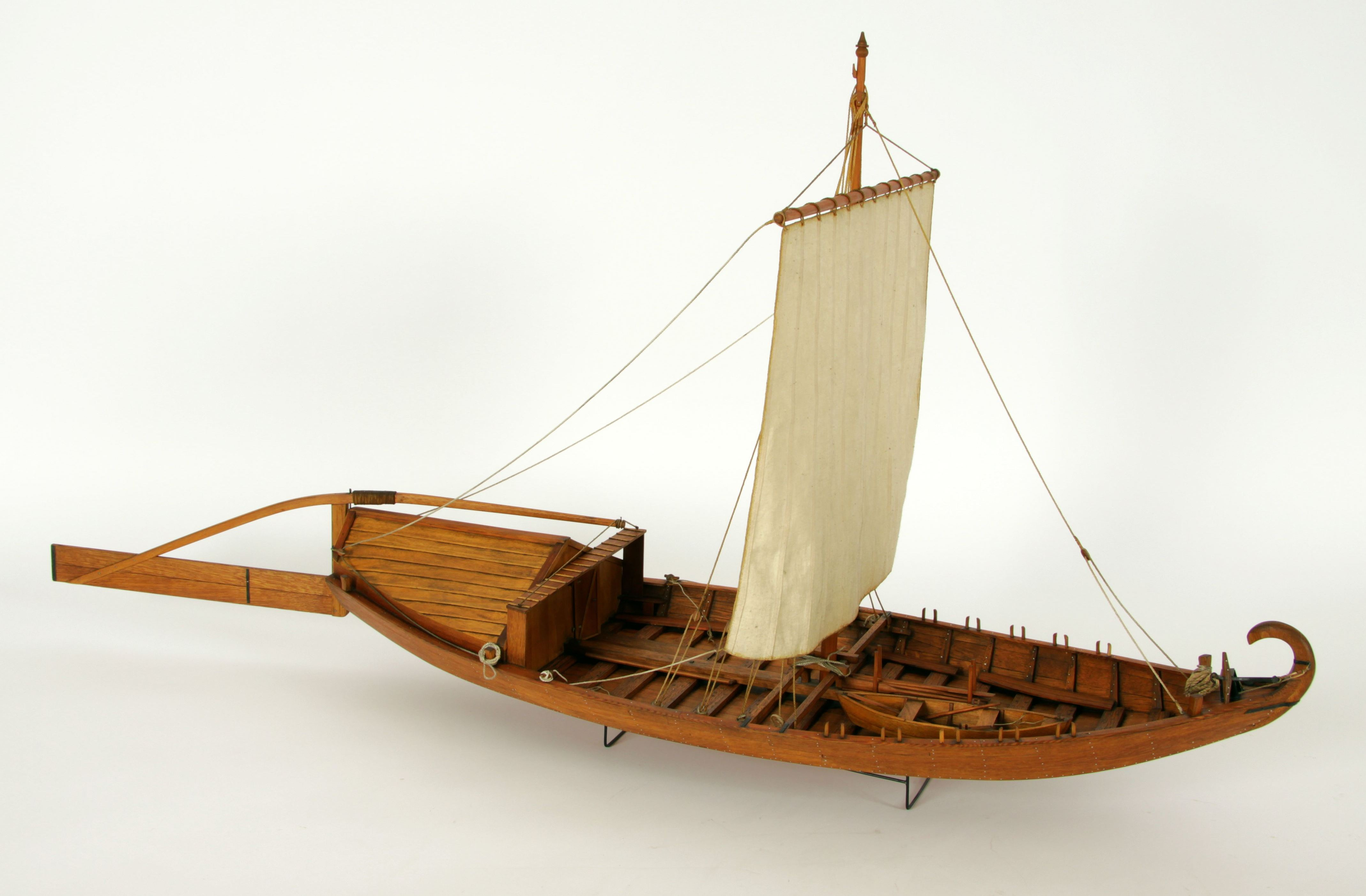 Model of KOZA - ship used on Vistula River during XVI-XVIII century. Exhibit in the National Maritime Museum in Gdańsk, Poland